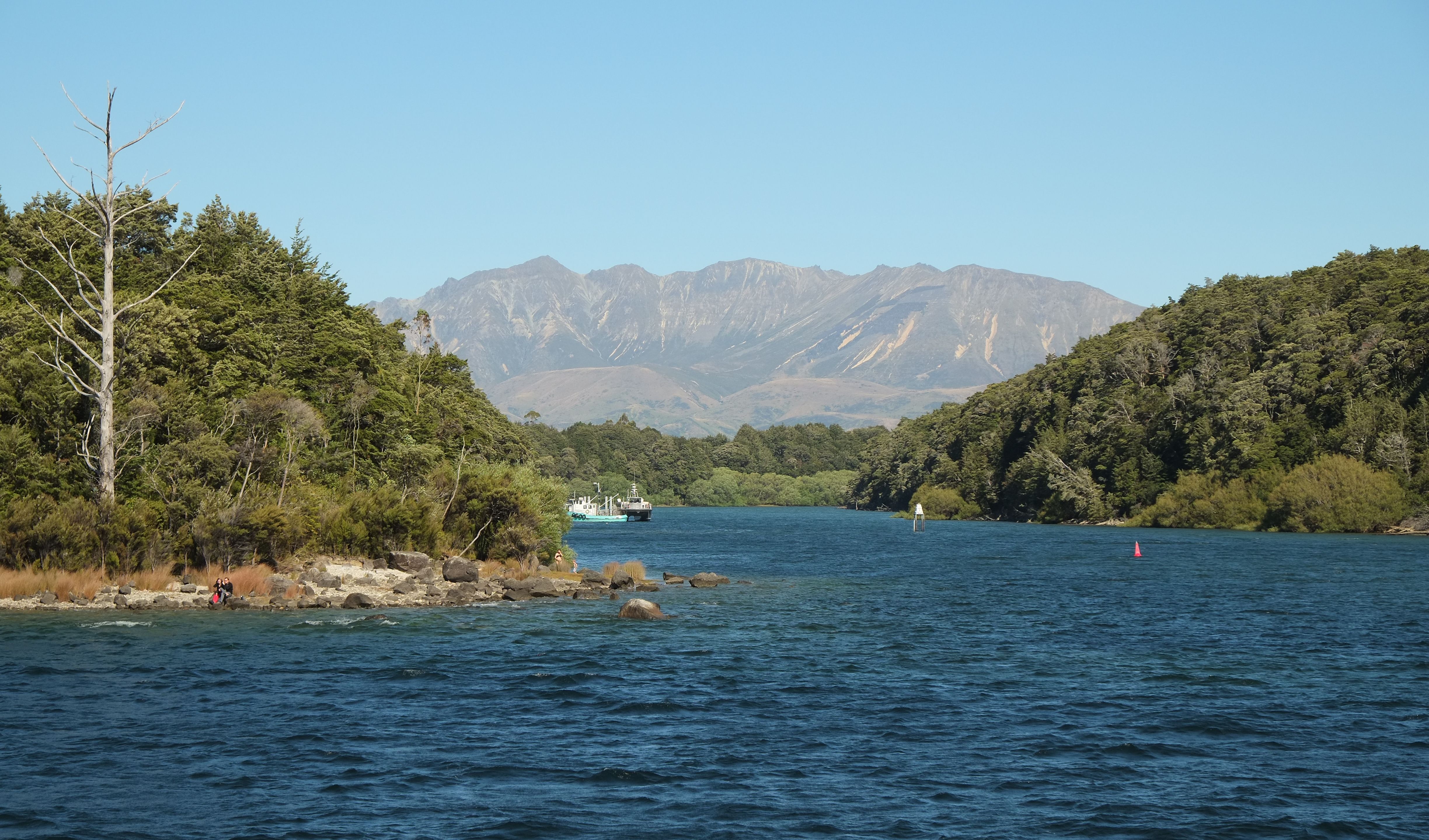 Lake Manapouri outlet into Waiau River towards Pearl Harbour, New Zealand